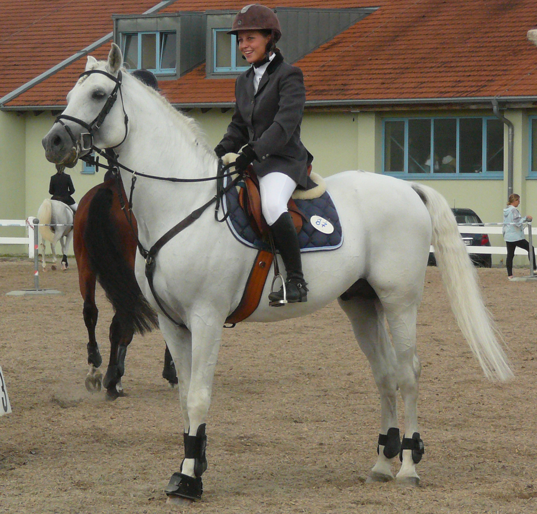 Grey stallion shagya arabian in show jumping, France